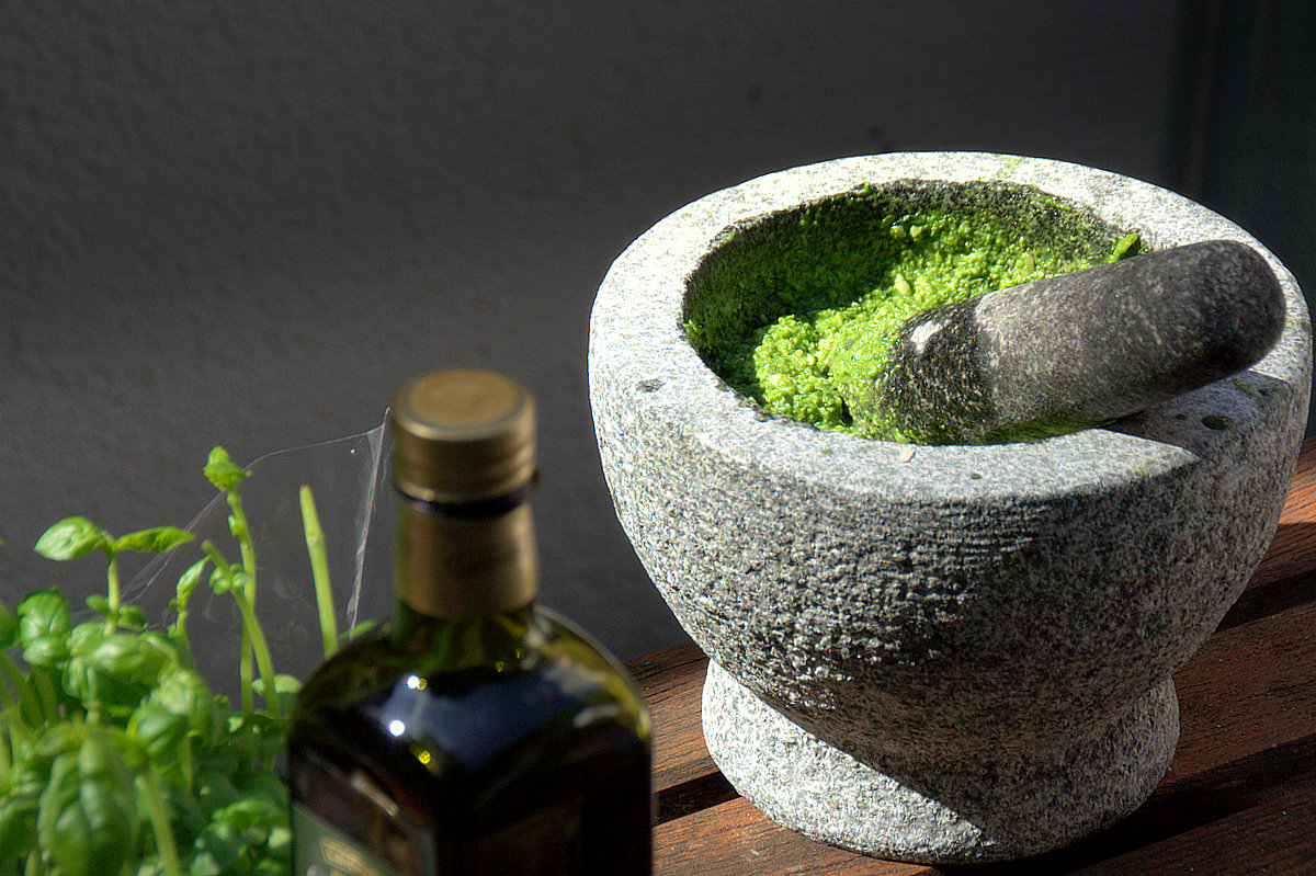 this is a picture of self made pesto in a mortar.